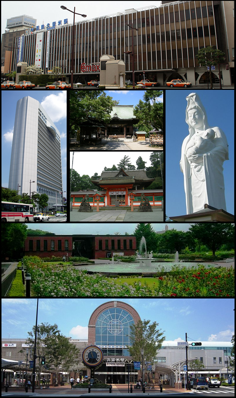 Montage of Kurume, Fukuoka. From the upper left: Nishitetsu Kurume station, city hall, Suitengu-shrine, Koura-taisha shrine, Narita-san temple, Ishibashi museum of art and JR Kurume station 久留米市のモンタージュ画像。 左上より、西鉄久留米駅・市役所・水天宮総本宮・高良大社・成田山久留米分院（慈母観音像）・石橋美術館・JR久留米駅